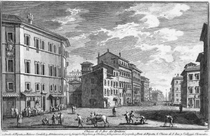 1) Strada di Ripetta; 2) Palazzo Cardelli; 3) Palazzo Borghese per la famiglia; 4) Obelisk in Piazza del Popolo; 5) Porto di Ripetta; 6) S. Ivo dei Brittoni; 7) Collegio Clementino.